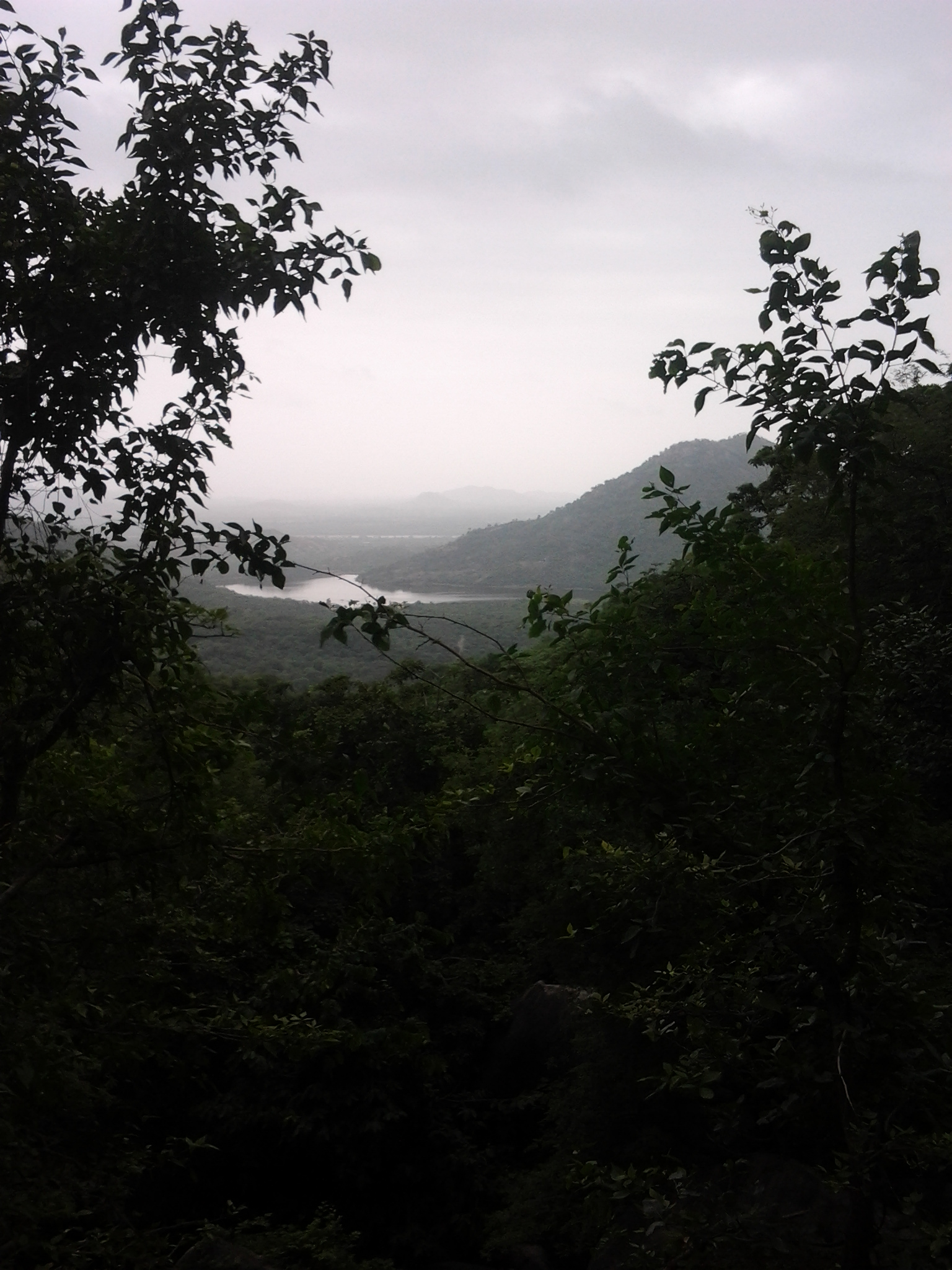 Jessore hill is the second highest peak in Gujarat,India. It’s a multistoried forest. This picture is taken from the area near the peak of the mountain. Jessore hill is declared as Wildlife Sanctuary in May 1978. It is situated in the Banaskantha district, 45 kms. from Palanpur. Jessore hill is the part of Arravli hills, 180.66 sq.km. forest. The sanctuary is known more for the endangered Sloth Bear. It is having also an other important faunal species like leopards, Rhesus macaque, Indian civet cat, porcupine, fox, striped, hyena, wild boar etc, and also variety of birds ranging from land birds to water birds.The reptiles include snakes, tortoises and lizards of various types. The rarest Indian Python is also observed here.